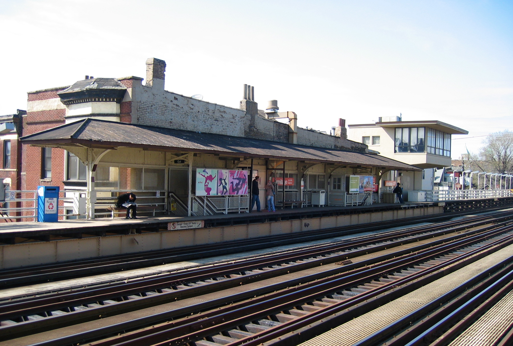 Armitage station on the CTA Brown and Purple Lines.Photographed from 41°55′4″N 87°39′9″W / 41.91778°N 87.6525°W looking north west.